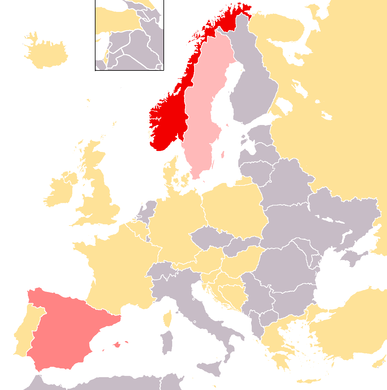 Map of Eurovision 1995